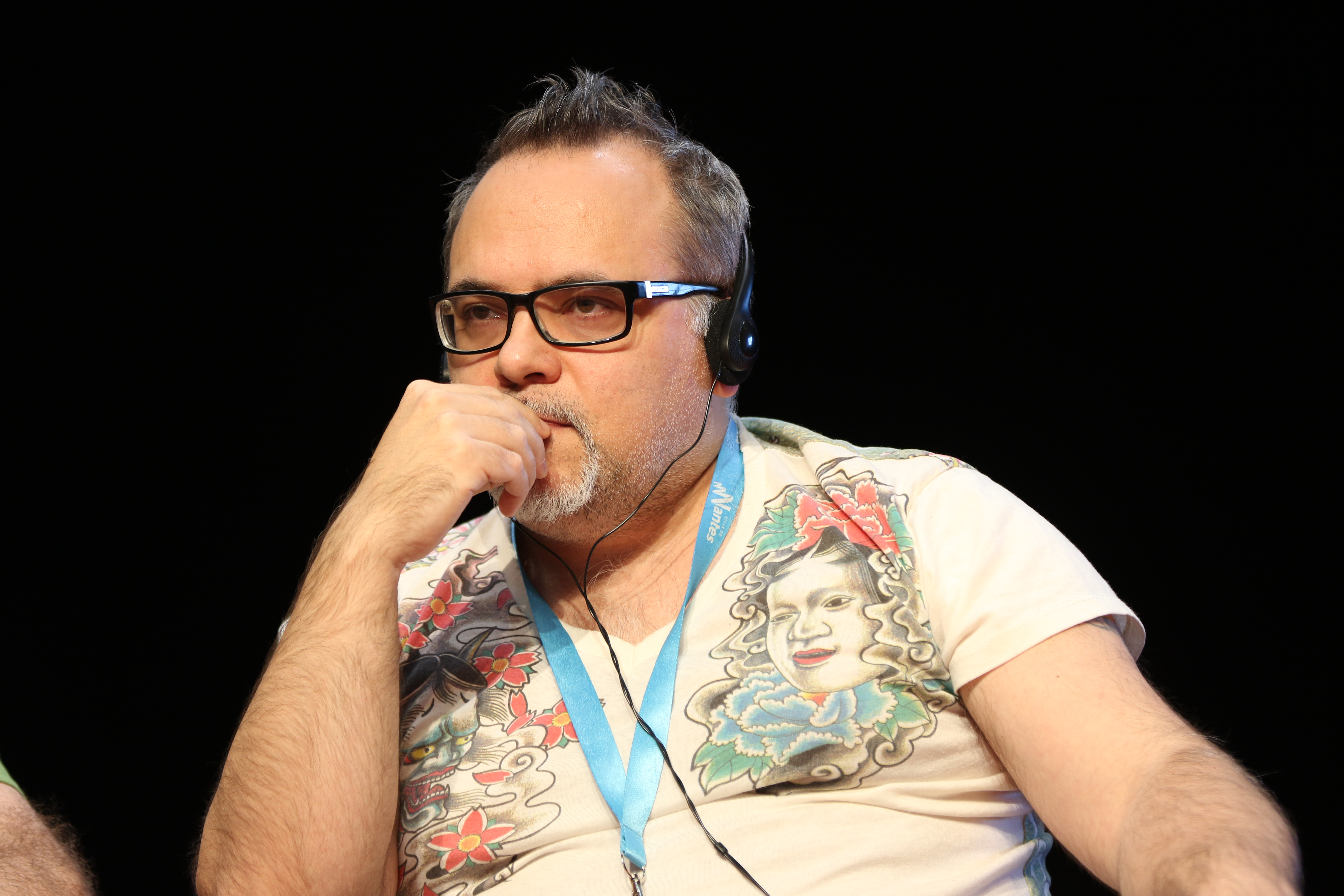 photograph taken at the 2015 edition of the "Utopiales" of Nantes.